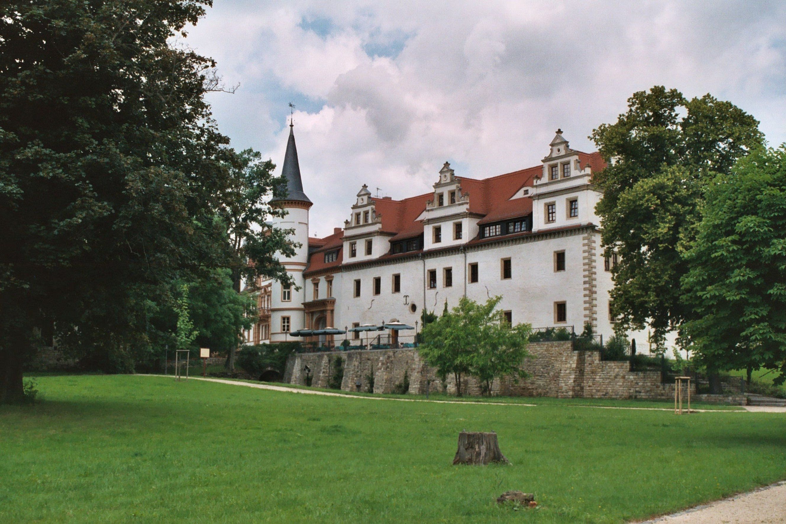 Schkopau, the castle